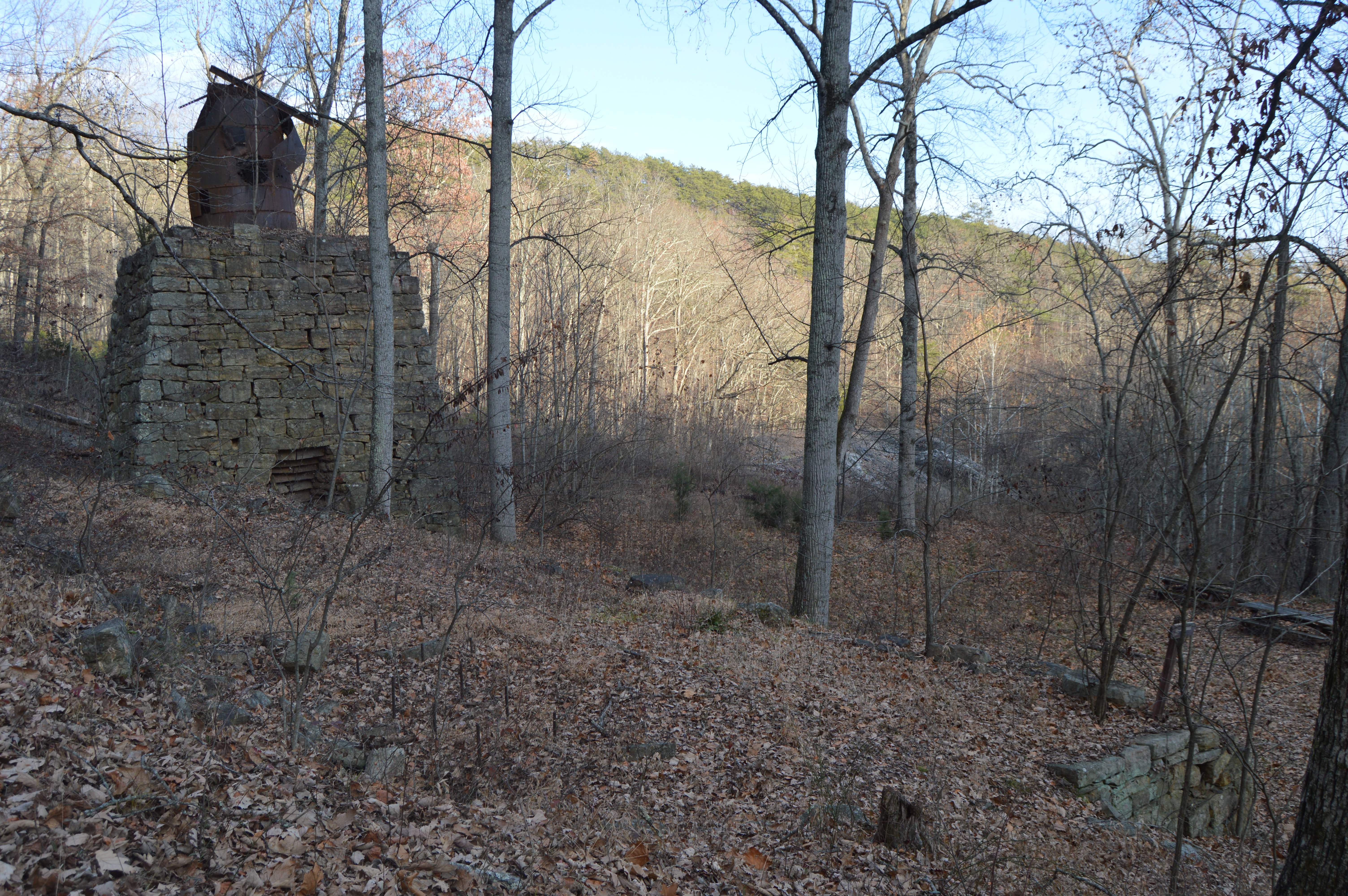 Overview of the Callie Furnace site, located along a forest path southwest of Iron Gate in Botetourt County, Virginia, United States. Built in 1873, it is listed on the National Register of Historic Places.